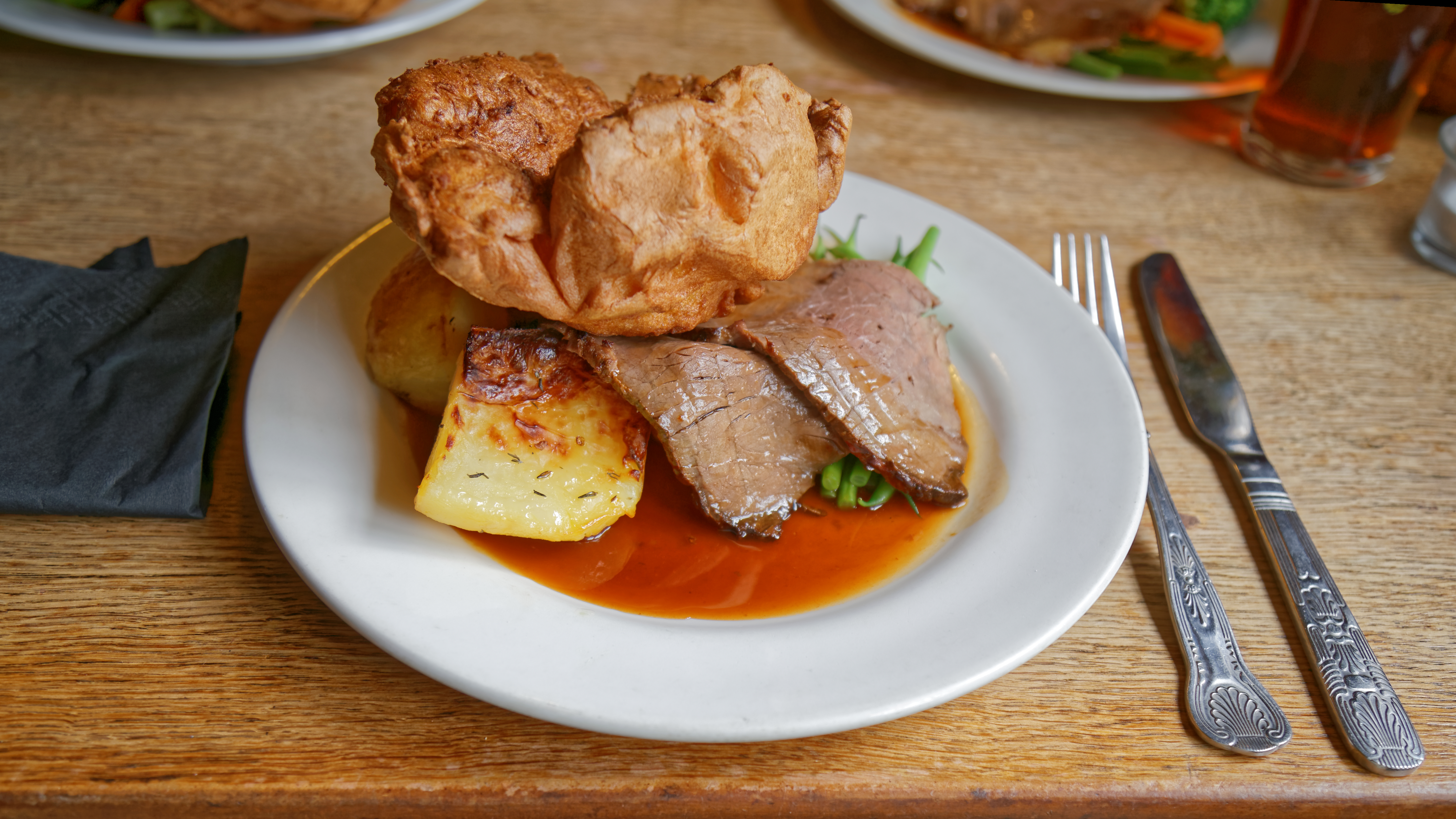 A dinner first course of roast lamb, roast potatoes, green beans and Yorkshire pudding with gravy, at the Black Horse Inn on Nuthurst Street in Nuthurst, West Sussex, England.Software: RAW file lens-corrected, optimized and converted to JPEG with DxO OpticsPro 10 Elite, and likely further optimized and/or cropped and/or spun with Adobe Photoshop CS2.